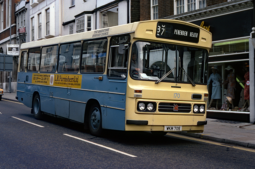 Maidstone Borough Transport Bedford YLQ Duple Dominant, registration WKM 70S, fleet number 170. Scanned from a Kodachrome 35mm slide.